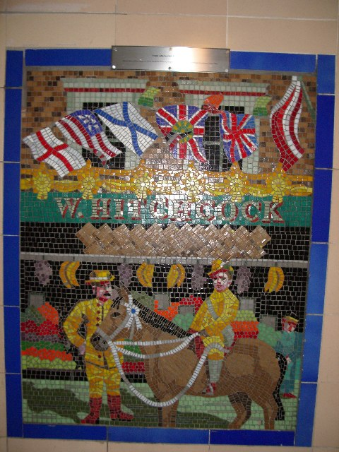 A Hitchcock Thriller (1) This tiled mosaic in the subway at Leytonstone tube station is one of a series depicting scenes from the life of local hero Alfred Hitchcock. This one shows the young Alfred on horseback outside his father's butchers shop at nearby 517 High Road.